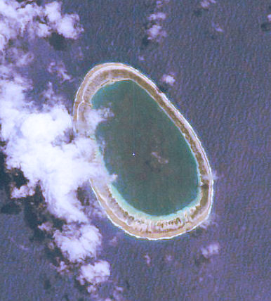 NASA astronaut image of Manuhangi Atoll (Tuamotu Archipelago, French Polynesia) in the Pacific Ocean